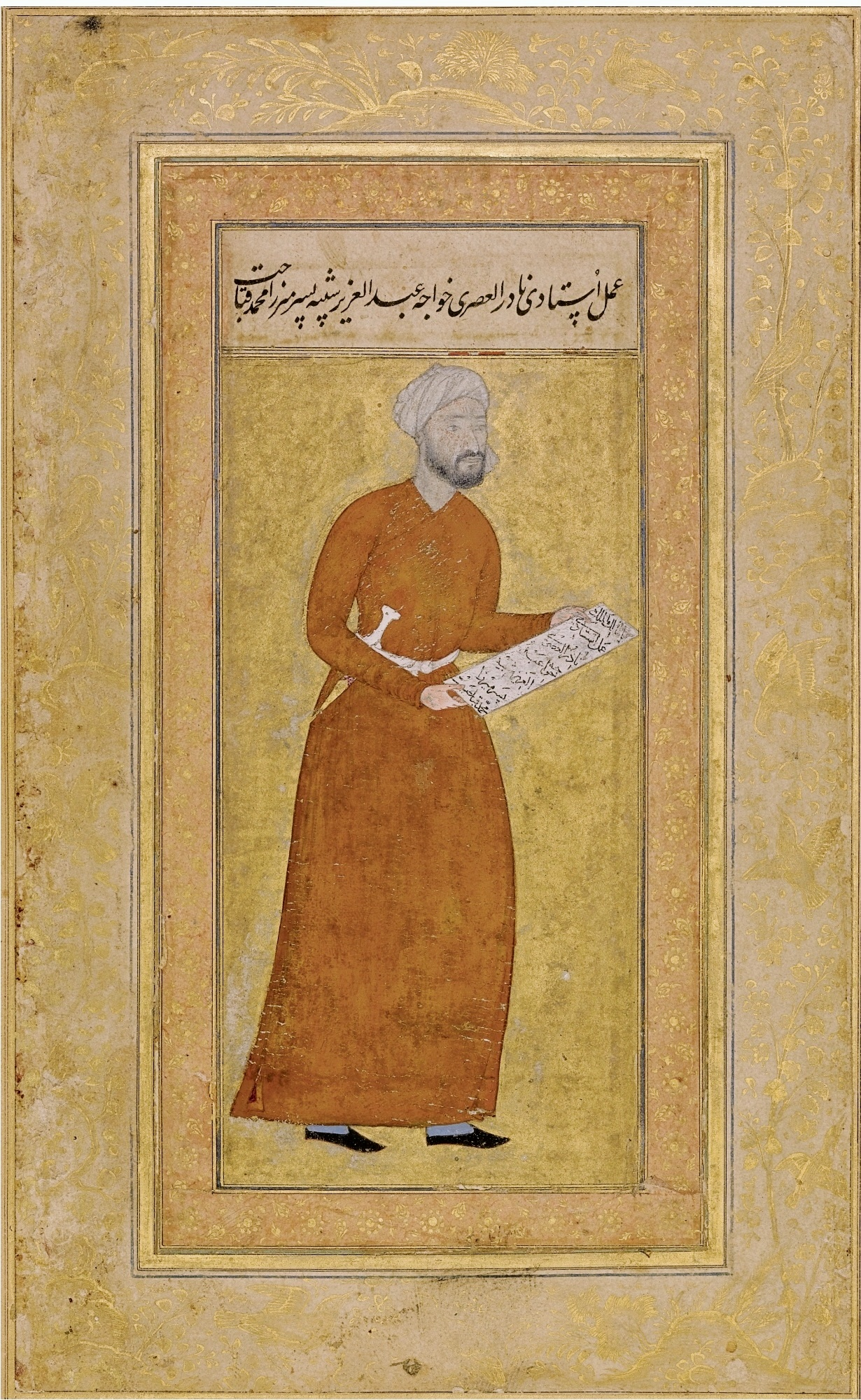 Signed Abd al-Aziz, PORTRAIT OF MIRZA-MUHAMMAD, SON OF QABAHAT, BY ABD AL-AZIZ, PERSIA, TABRIZ, CIRCA 1540-45, SOTHEBY'S